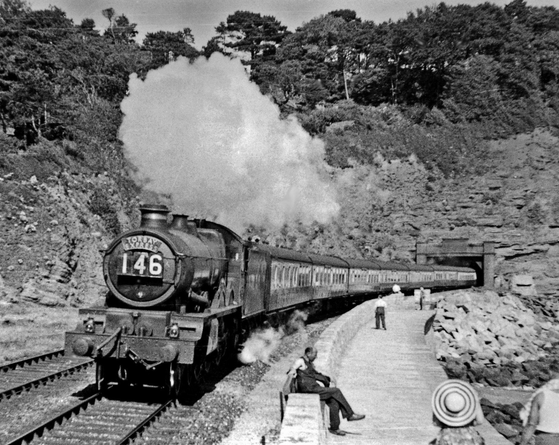 'Torbay Express' emerging from Parson's Tunnel, between Dawlish and Teignmouth. View NE, towards Exeter, Taunton, Bristol/London; ex-GWR (South Devon) Exeter etc. - Plymuth - Penzance main line. For 2½ miles between Dawlish and Teignmouth the GWR main line runs beside the sea, albeit through several tunnels, accompanied by a footpath beside the sea: here it is evident that people enjoying (or not, see the bloke on the seat) the seaside also had lots of trains to watch. The 'Torbay Express' left Paddington at 12.00 and reached Kingswear at 16.10. Here it is headed by 'Castle' 4-6-0 No. 5079 'Lysander' (built 5/39 as 'Lydford Castle', renamed 11/40, withdrawn 5/60 - earlier than most 'Castles').